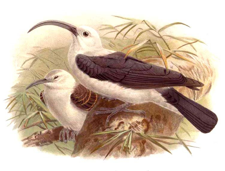 Sickle-billed Vanga (Falculea palliata)